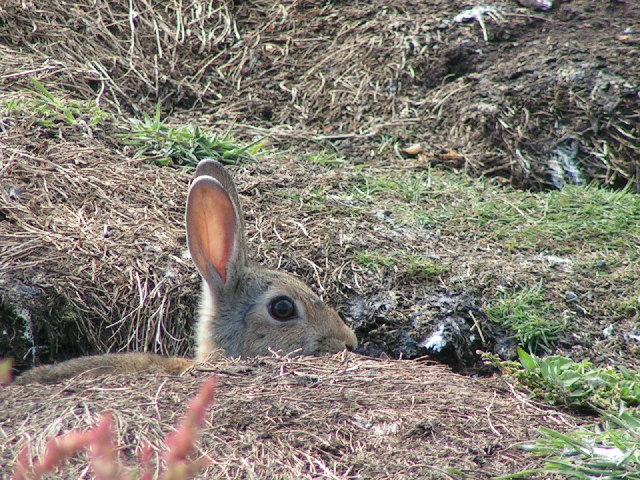 May Isle Rabbit